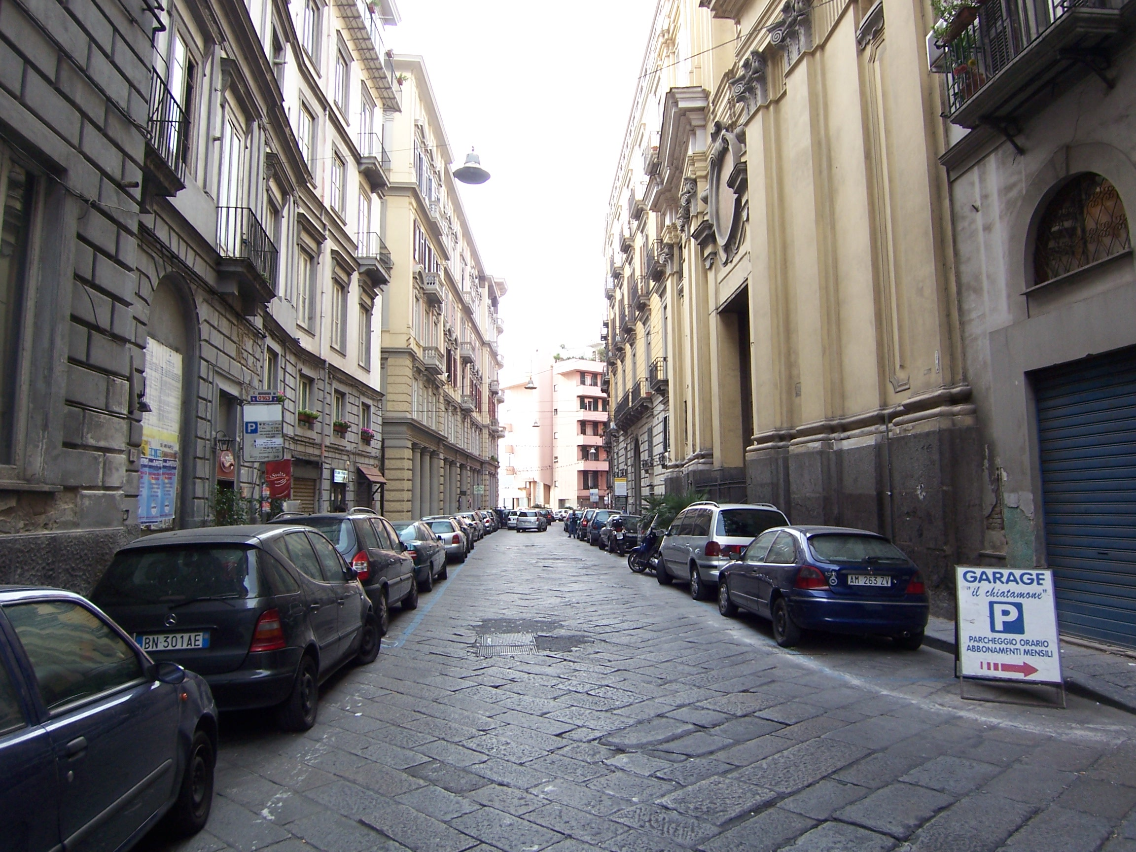 Via Chiatamone - Napoli